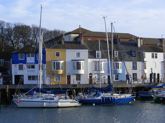 Cottages line the habour quayside at Nothe Parade, with Welling Court, the former Red Barracks, behind, in Weymouth, Dorset England.